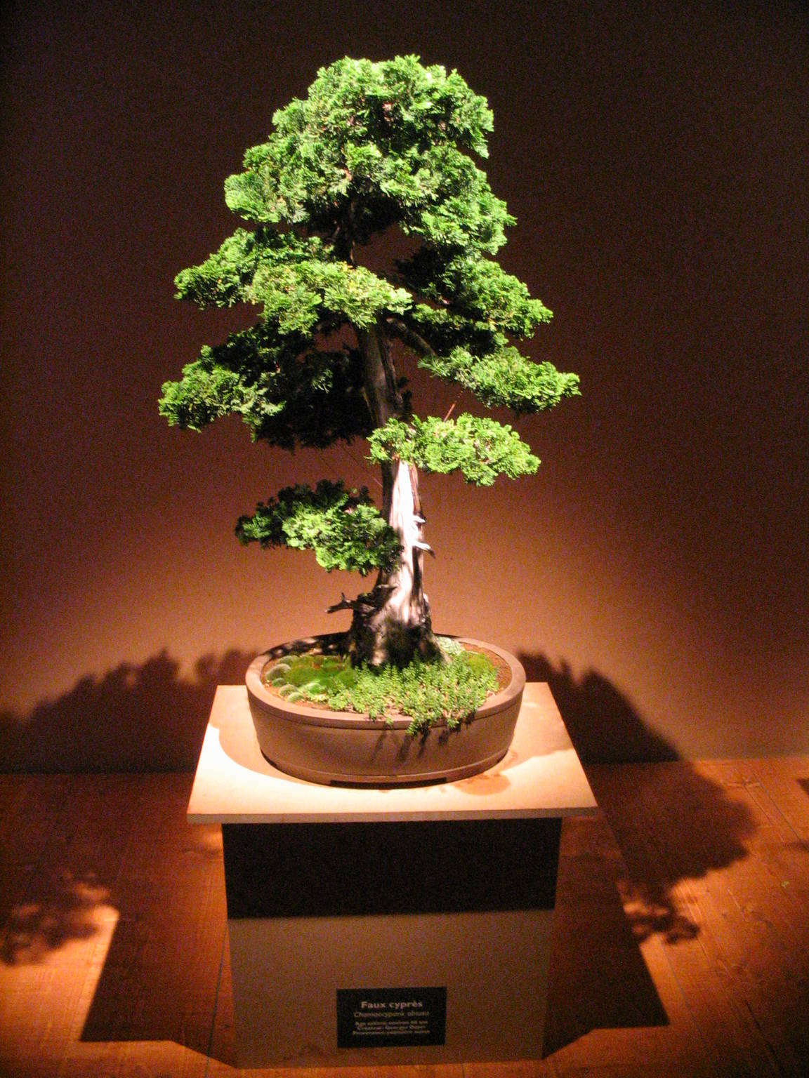 Bonsai at the "Foire du Valais" (Martigny, Switzerland, oct 2005)